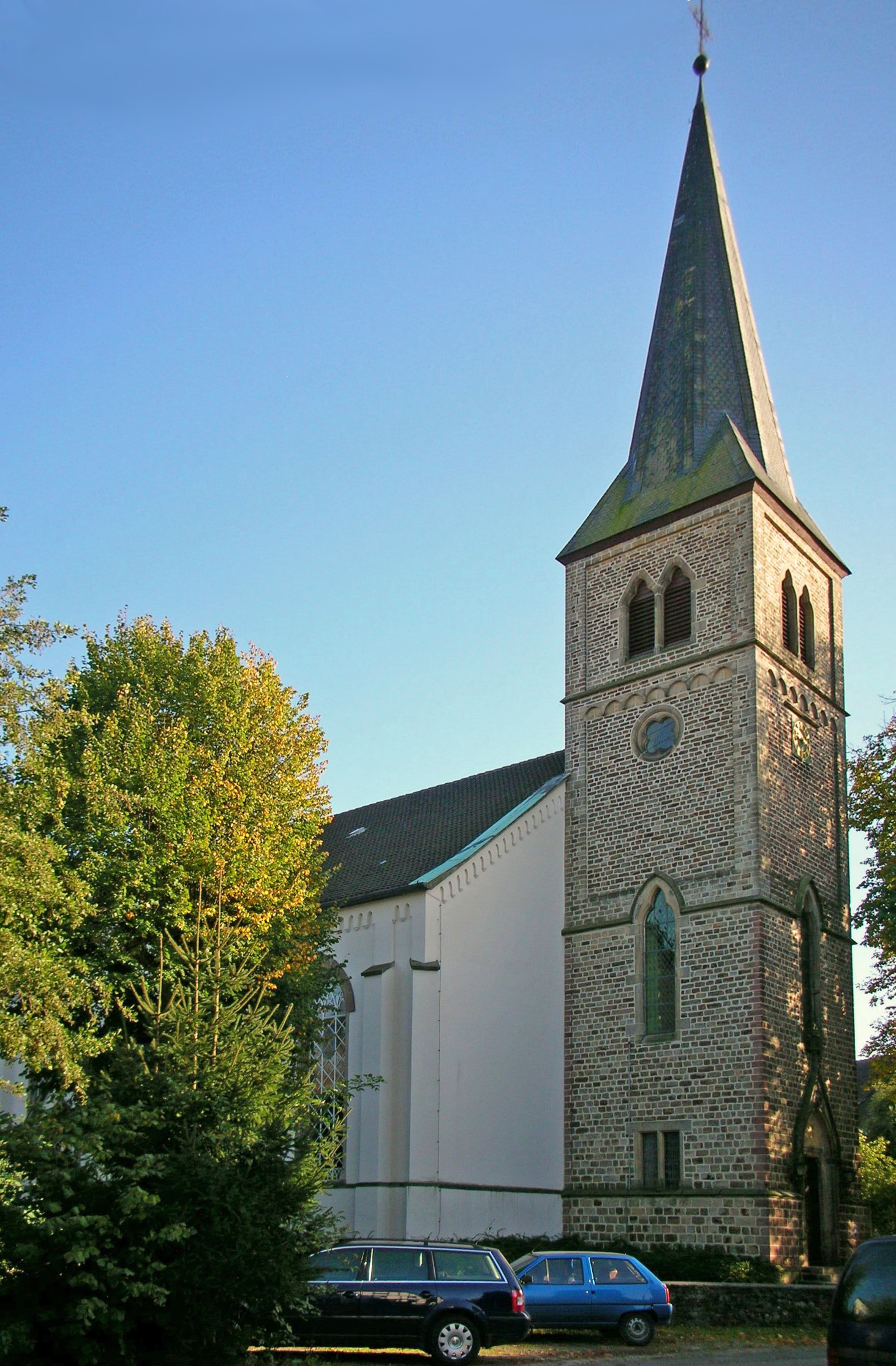 Churchtower of the village Bega in the nothern parts of the Lippe Uplands. The church is lying in the municipality Dörentrup.